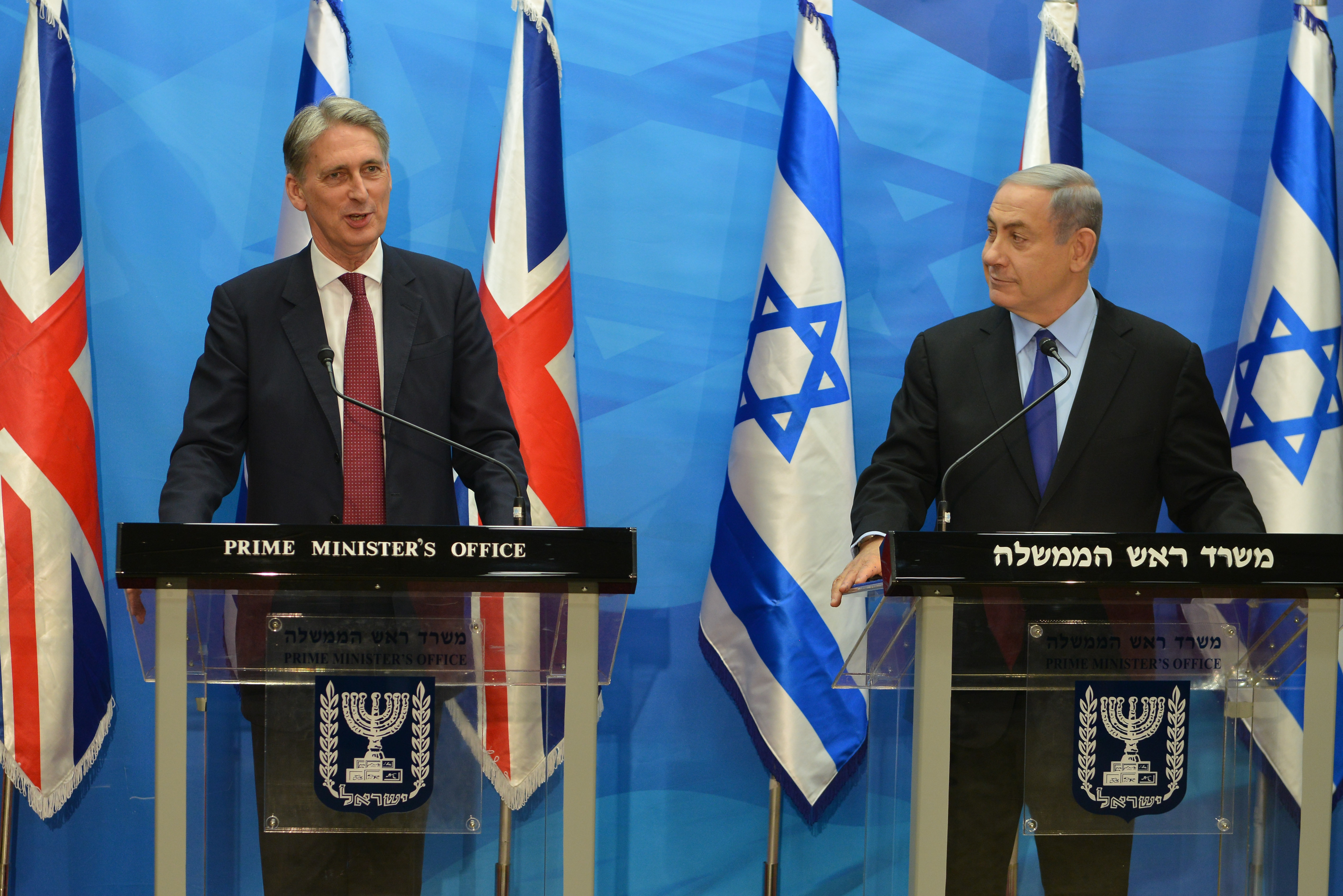 Foreign Secretary Philip Hammond with Prime Minister Netanyahu.